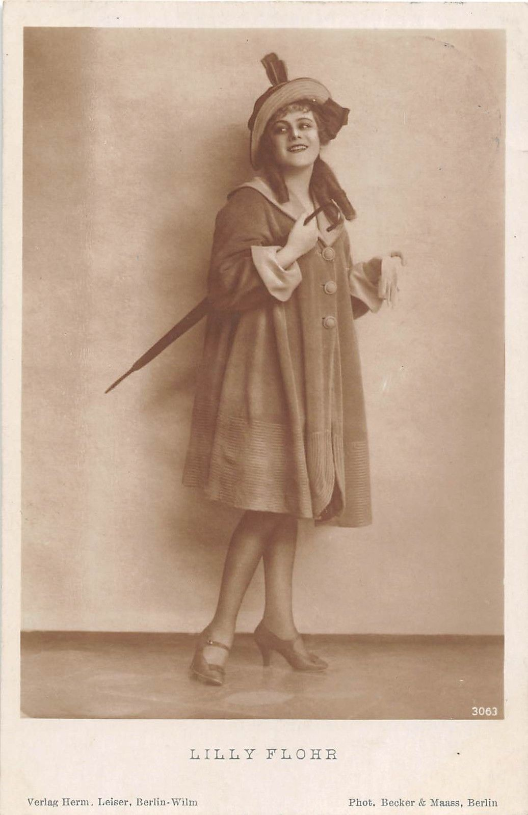 Postcard portrait of Austrian actress Lilly Flohr (1893-1978) by Becker & Maass.